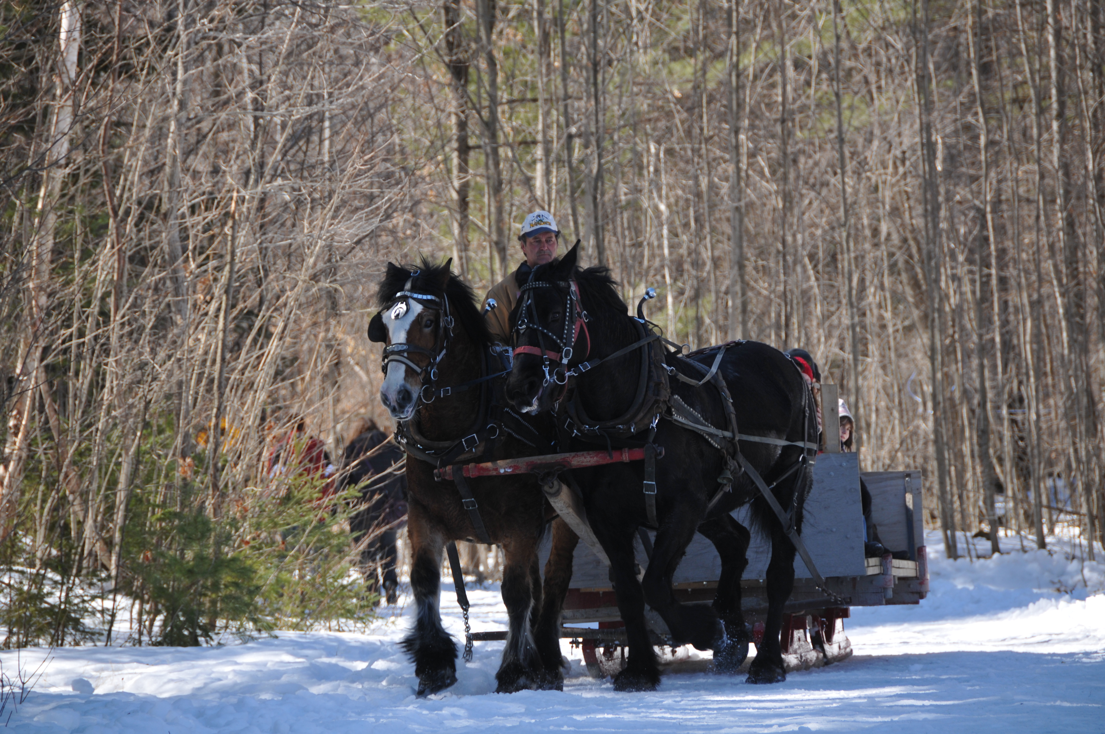 Horse and sleigh ride at Fulton's cabane à sucre (sugar shack) in Pakenham, Ontario.